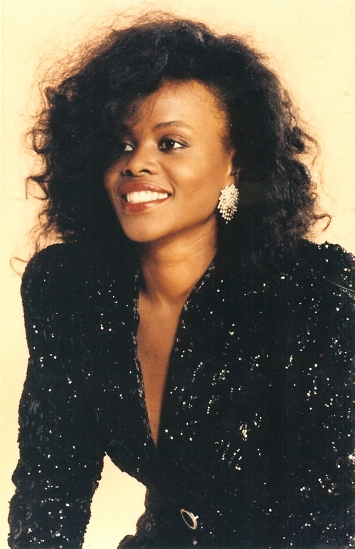 Iris Mack, PhD, EMBA earned a Harvard doctorate in Applied Mathematics and a London Business School Sloan Fellow MBA. She is a former MIT professor. Dr. Mack is also a former Derivatives Quant/Trader who has worked in financial institutions in the U.S., London and Asia.